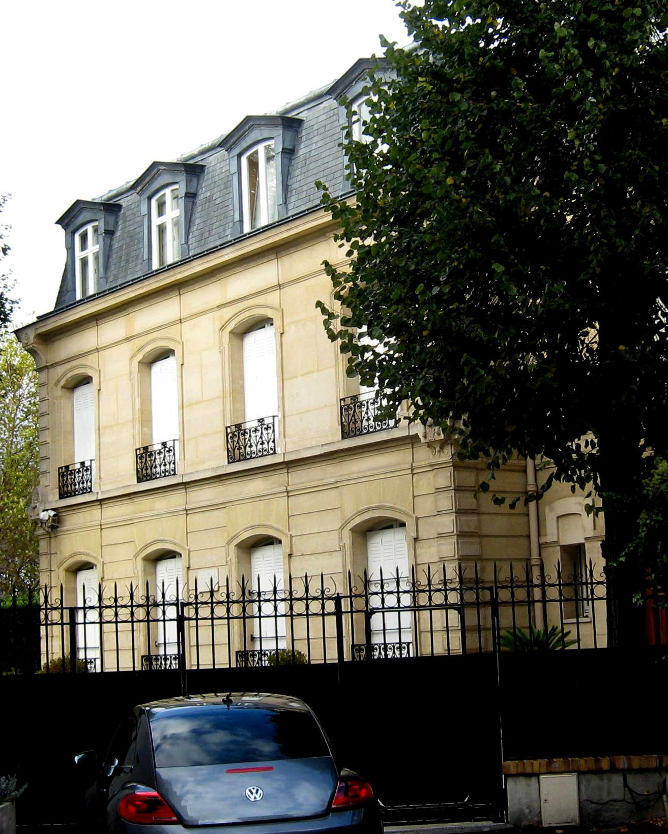 Photo taken October 2012 of Debussy's last home, where he died 1918. A plaque commemorating his residency adorns the main doorway (obscured by the tree on right of photo). The Square is now a gated property, accommodating several African embassies, and entry requires a degree of subterfuge. Buildings date from c. 1850-60 as part of Napoleon III's reconstruction of Paris.